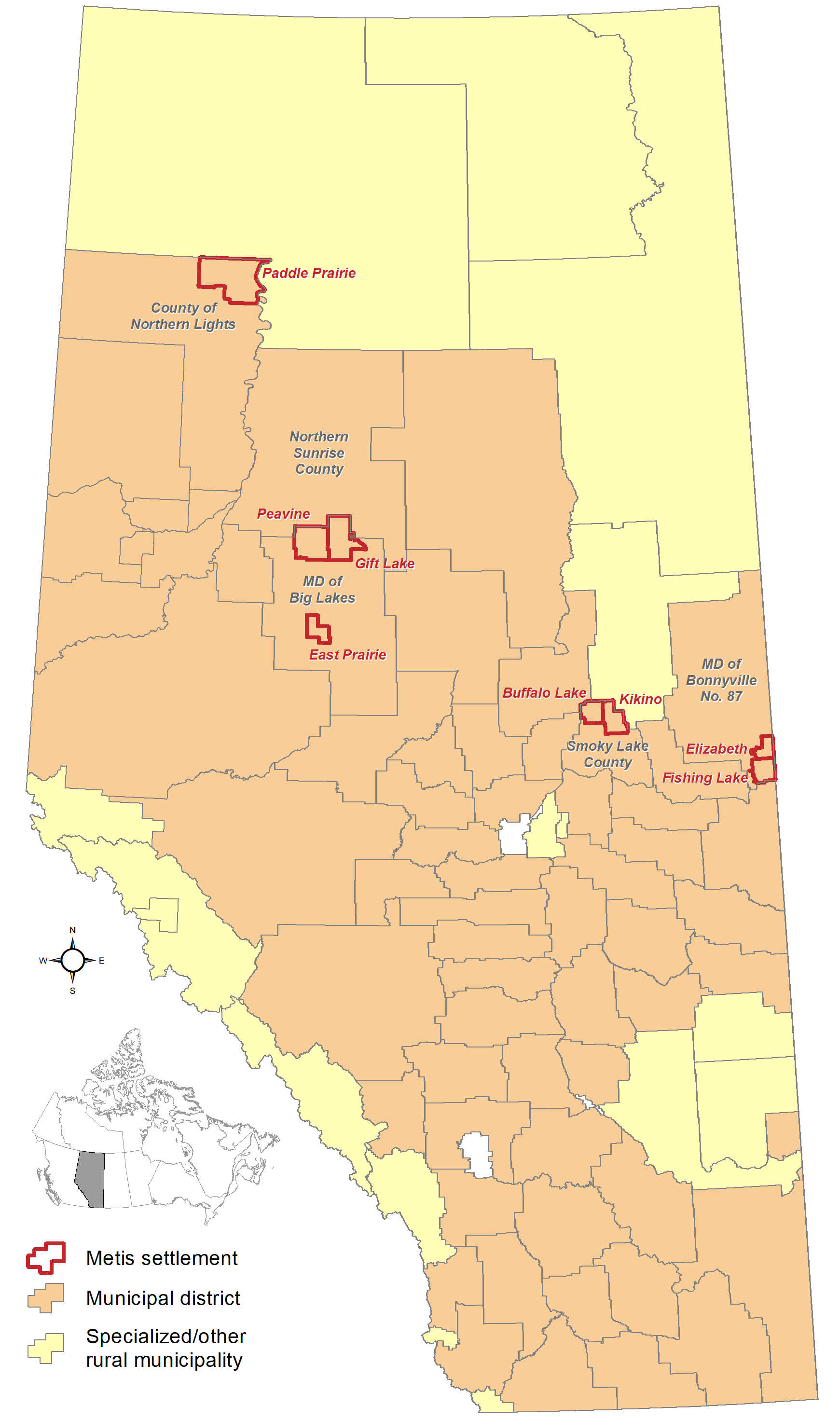 Map showing locations of Alberta's 8 Metis settlements among Alberta's 63 municipal districts as of May 2020, with base reference features (major lakes and rivers).